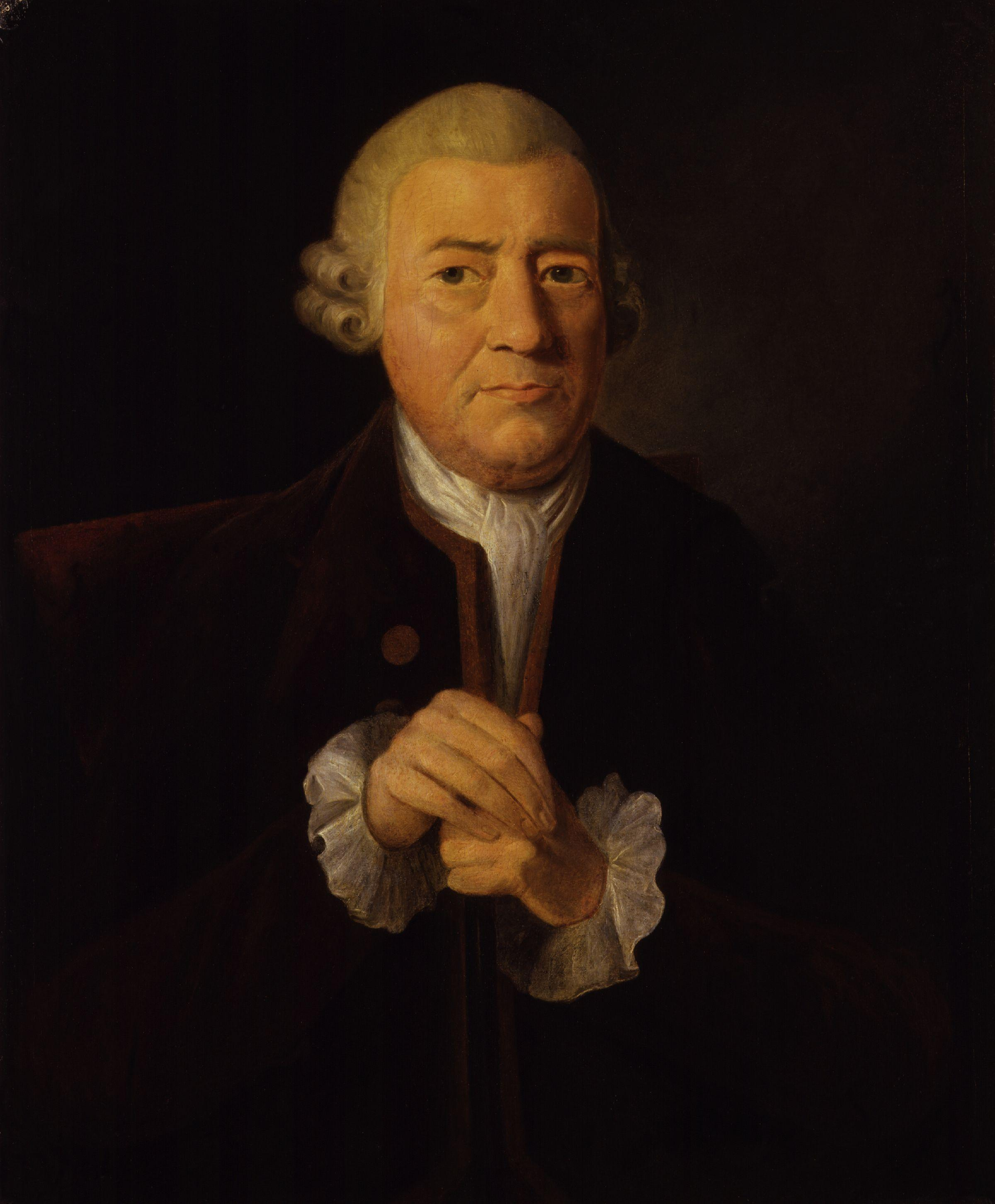 Portrait of John Baskerville (1706-1775)